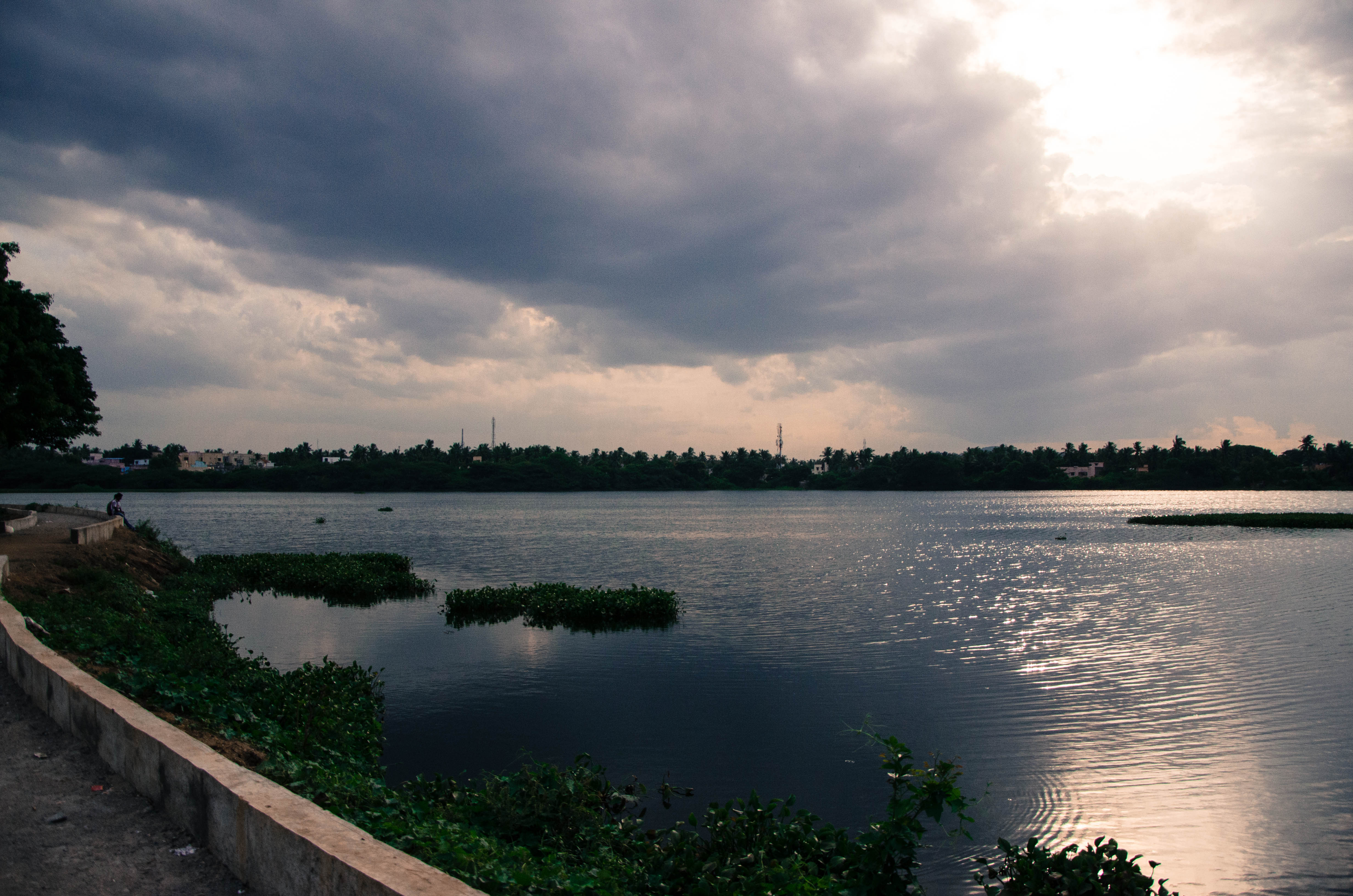 waters of Chitlapakkam lake